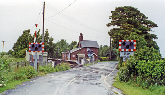 Havenhouse Station. View southward at level-crossing; Skegness to left, Firsby to right. See TF5259 : Havenhouse Station.